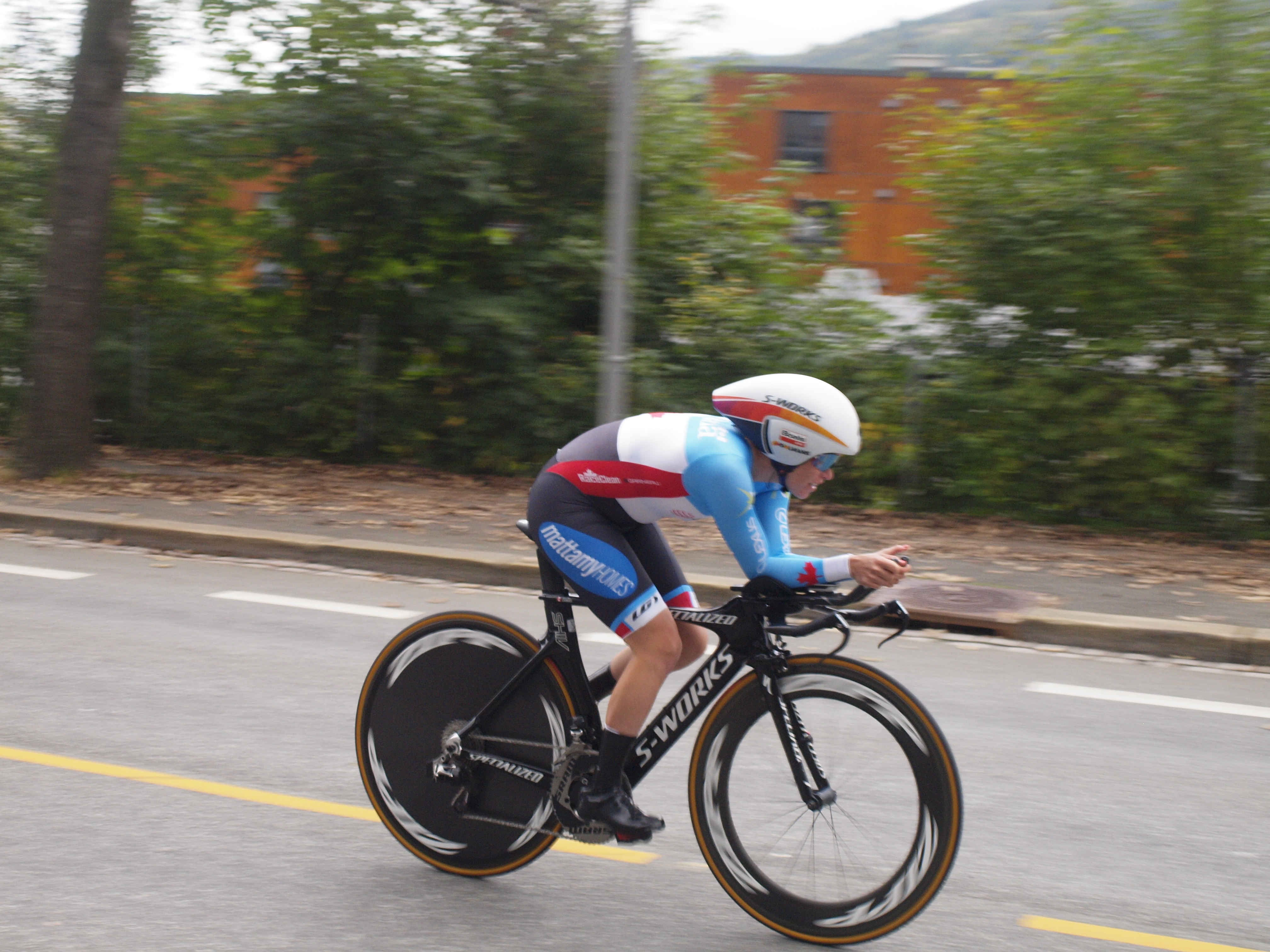 Karol-Ann Canuel at the 2017 UCI World Championships